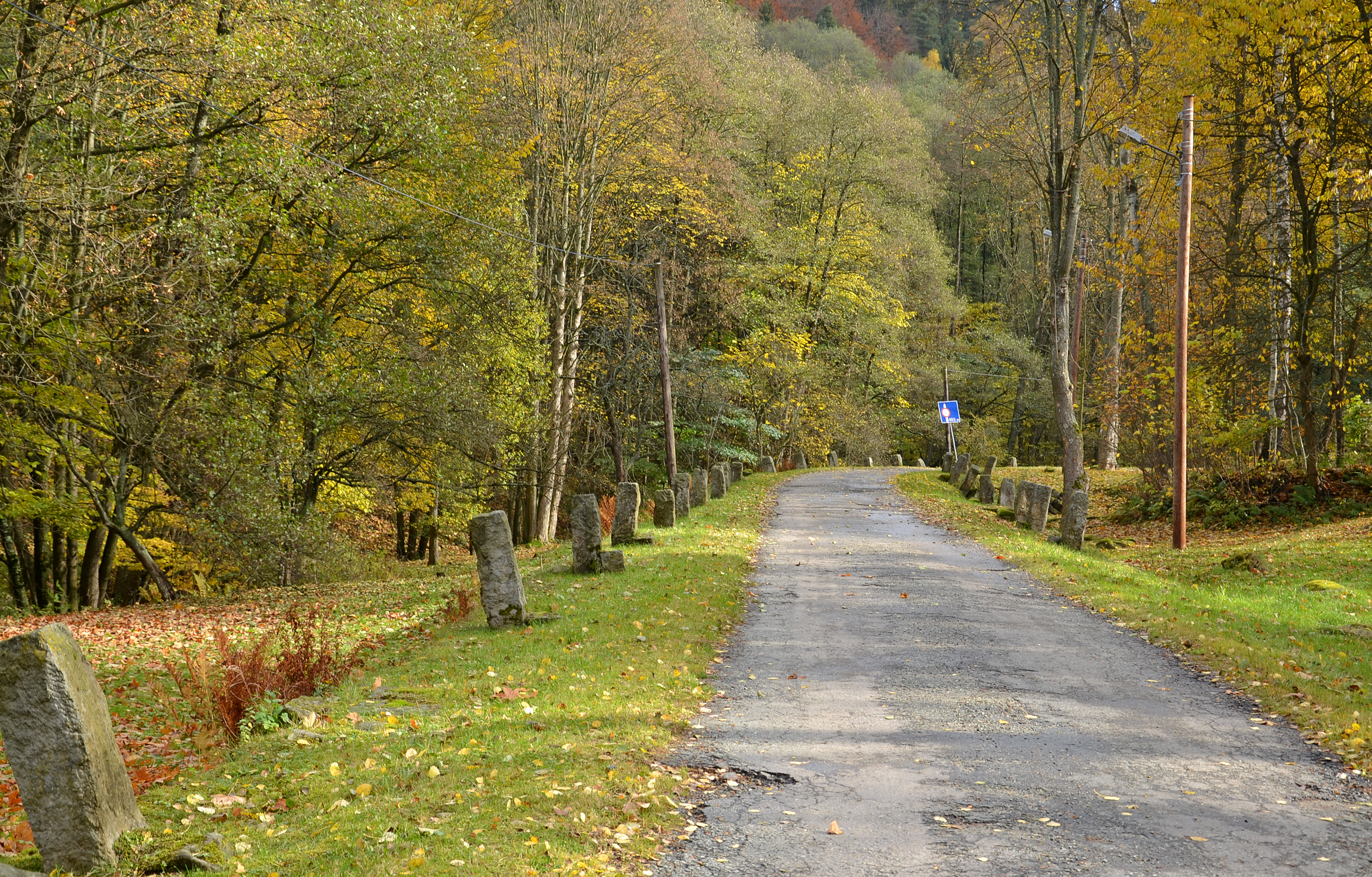 Machowska Droga (Asmusstrasse) - road in Góry Stołowe mountains, Poland